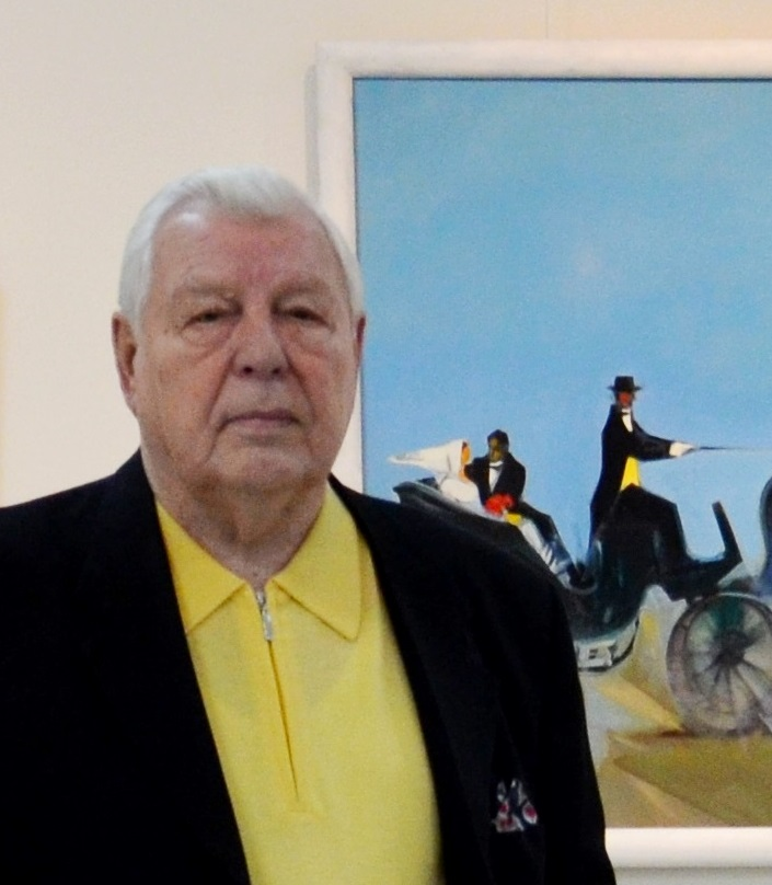 Leanid Shchamialiou, belarusian painter at his exposition 28.12.1013. His 90 years old.